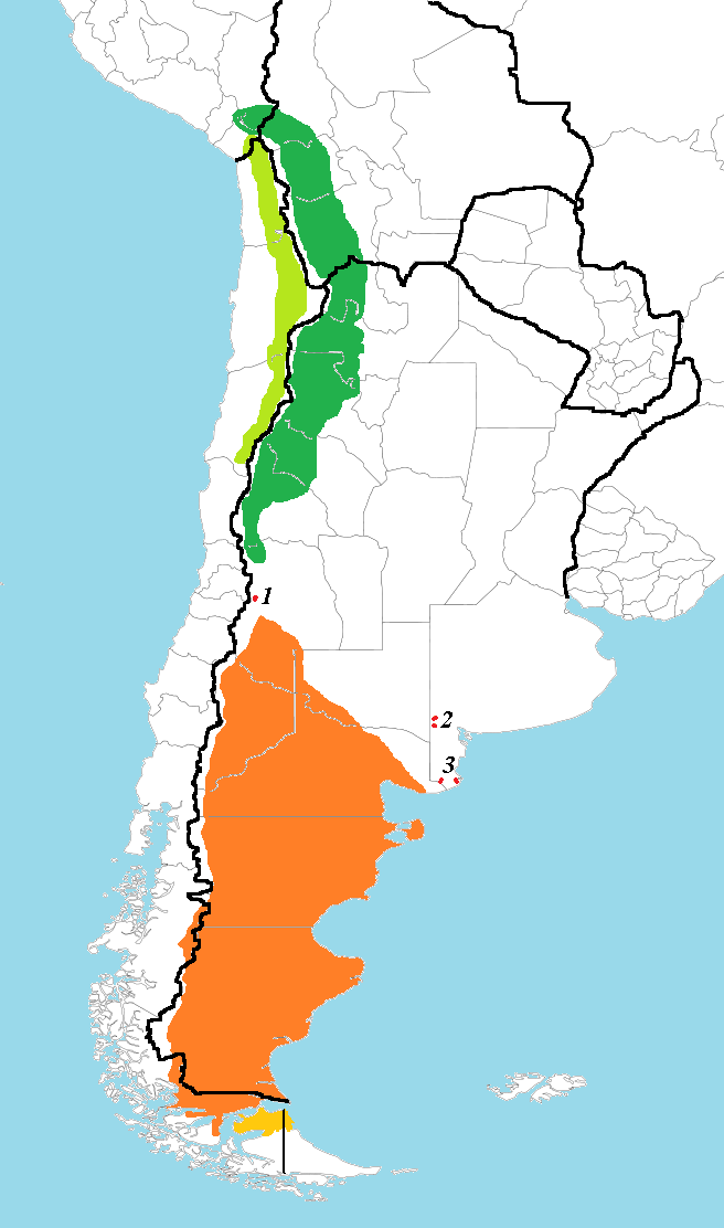 Darwin's Rhea or Lesser Rhea (Rhea pennata), map of subspecies ranges.